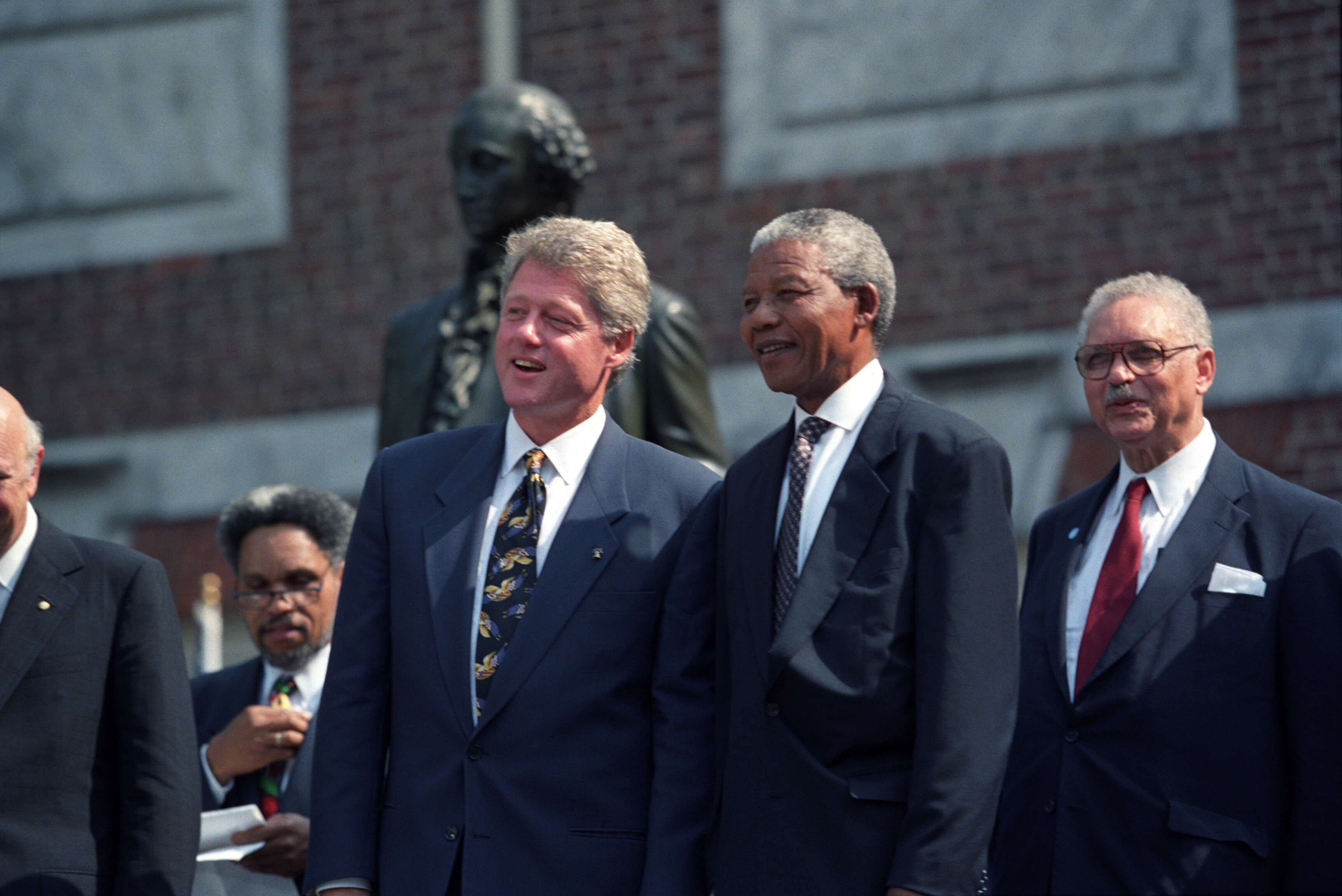 President Bill Clinton is joined on the stage with Nelson Mandela of South Africa and others at the Philadelphia Freedom Festival event